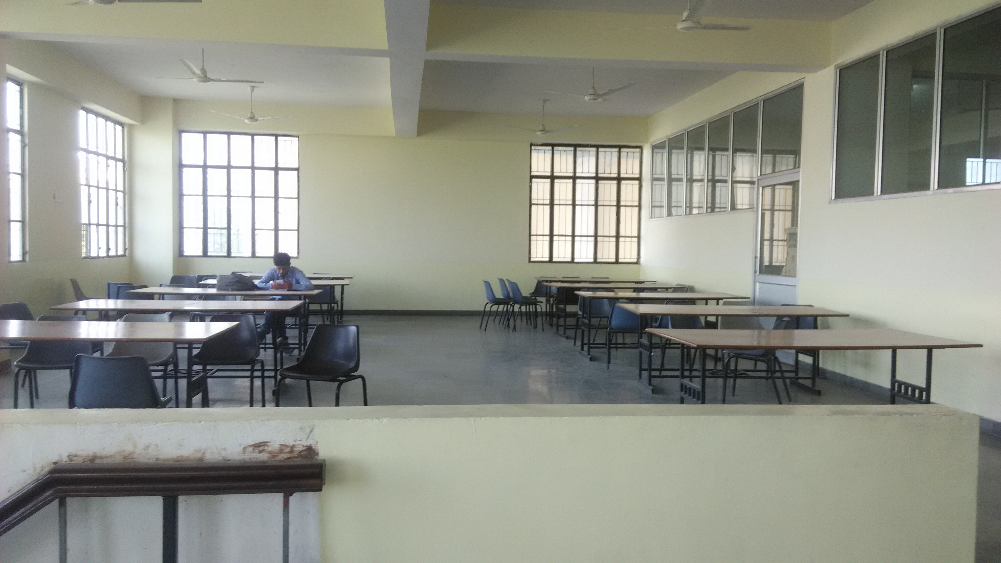 This is MAIET's Library sittings inside the MBA block.